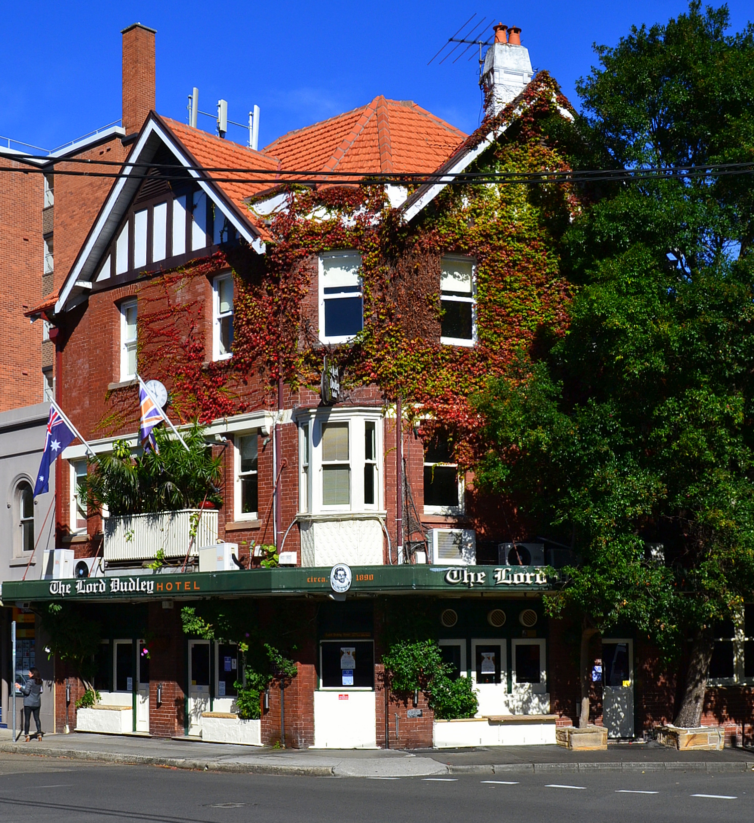 Lord Dudley Hotel, Paddington, Sydney